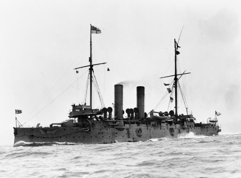 British Edgar class protected cruiser HMS EDGAR